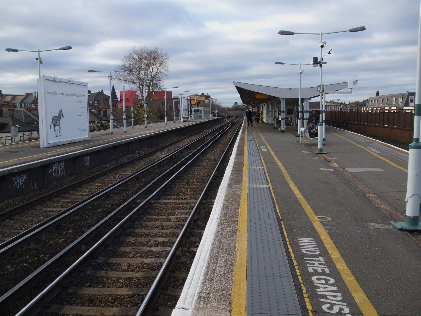 Balham station mainline slow northbound platform looking north. Fast tracks on the left - the fast platforms only in use during engineering work and normally out of bounds to the public.